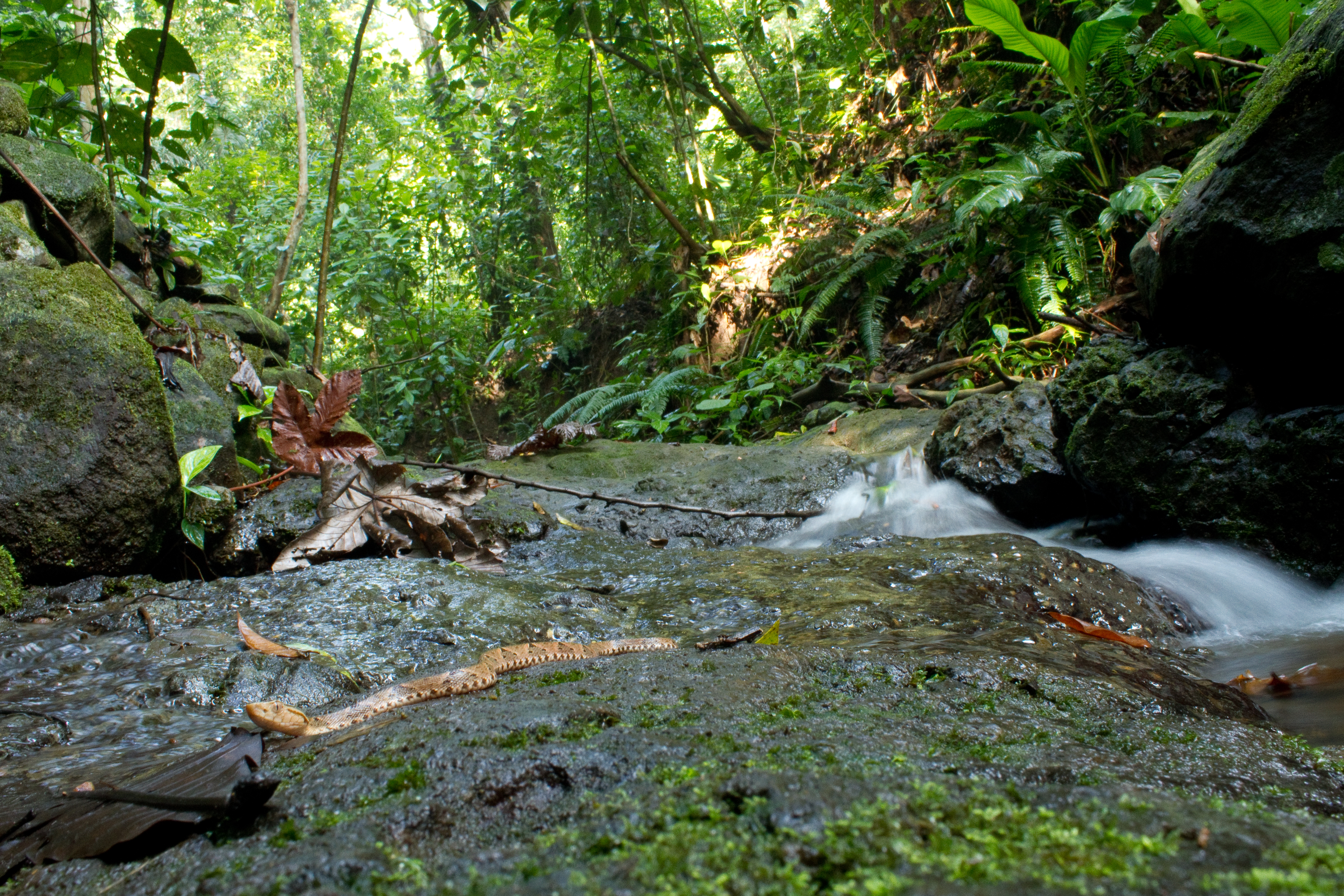 Bothrops asper on the trail (Panama)